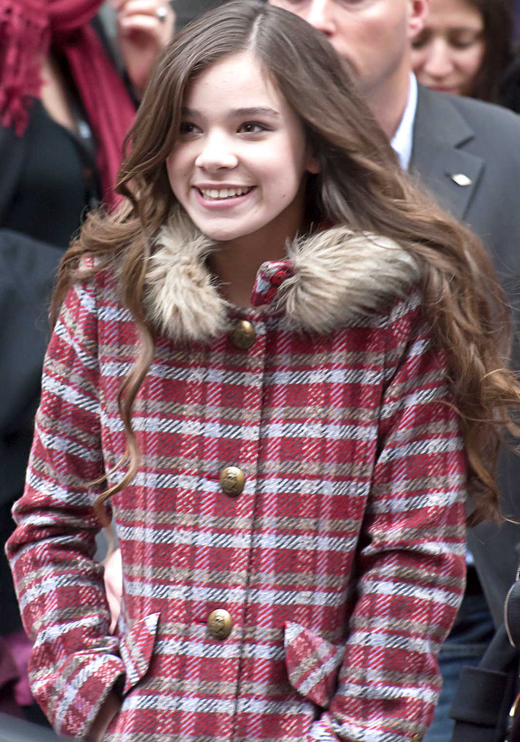 Hailee Steinfeld leaving the press conference of True Grit at the Berlin Film Festival 2011